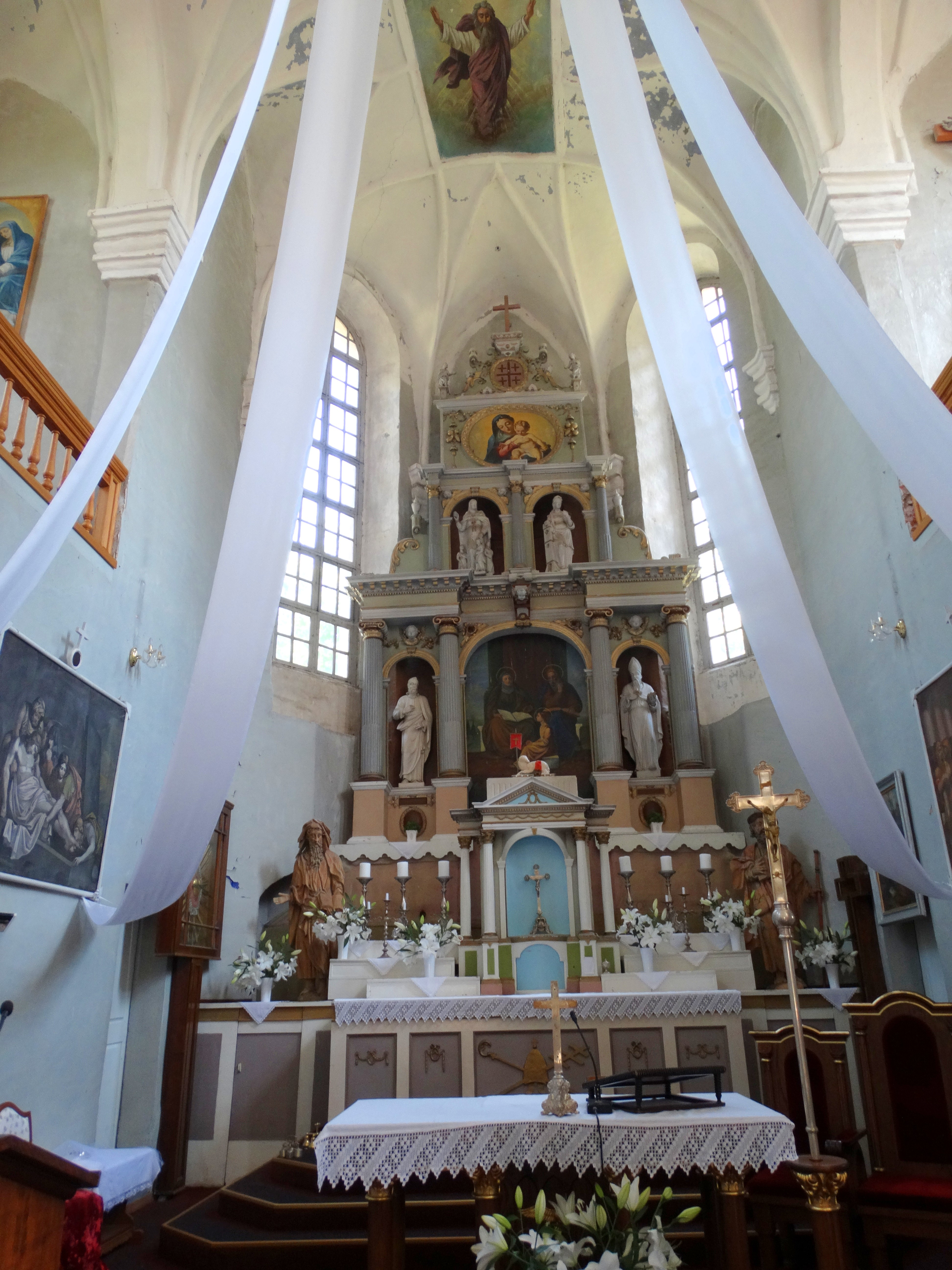 Saint Anne church, Skaruliai, Jonava district, Lithuania